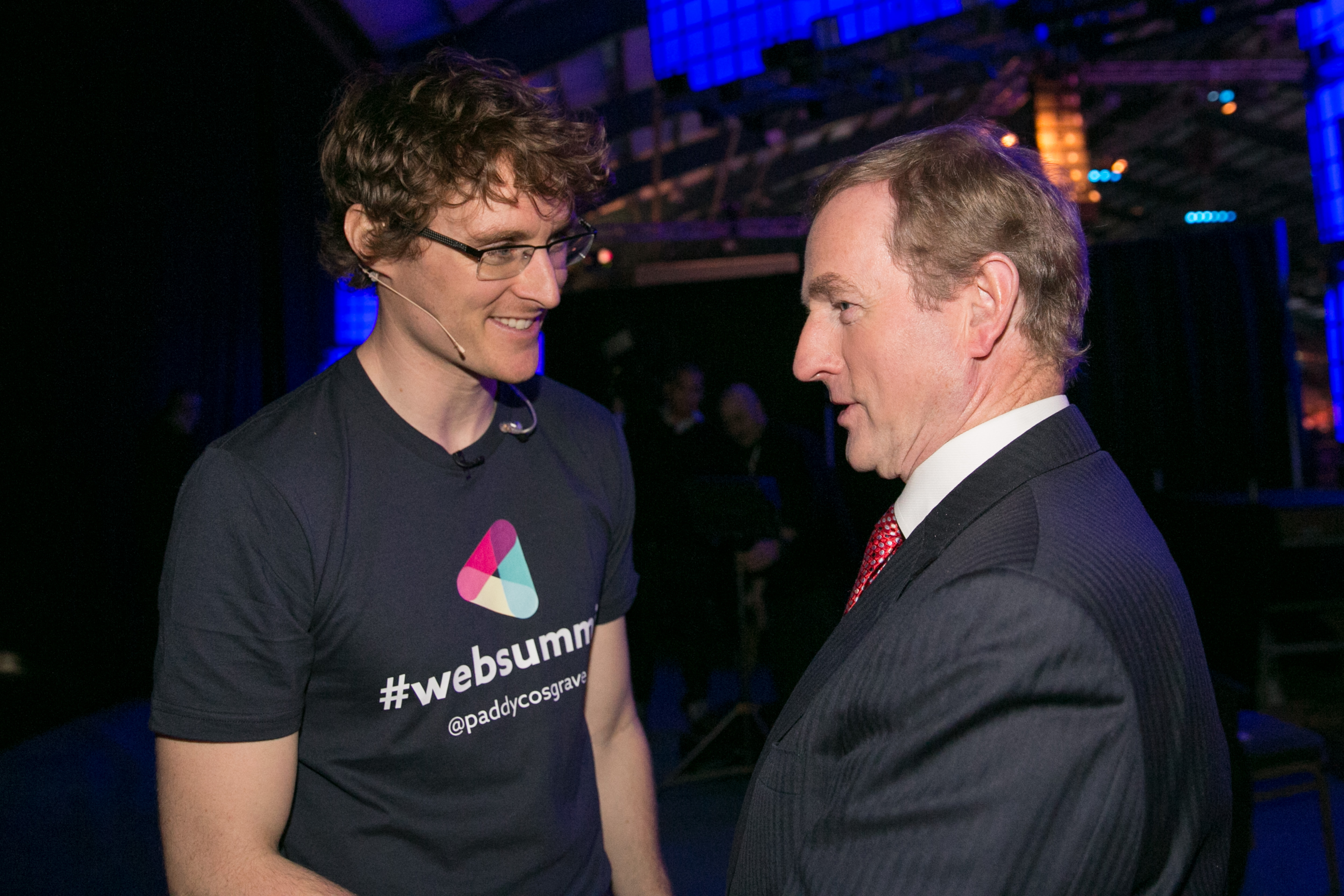 Sportsfile (Web Summit) Paddy Cosgrave and Enda Kenny at Dublin Web Summit 2014